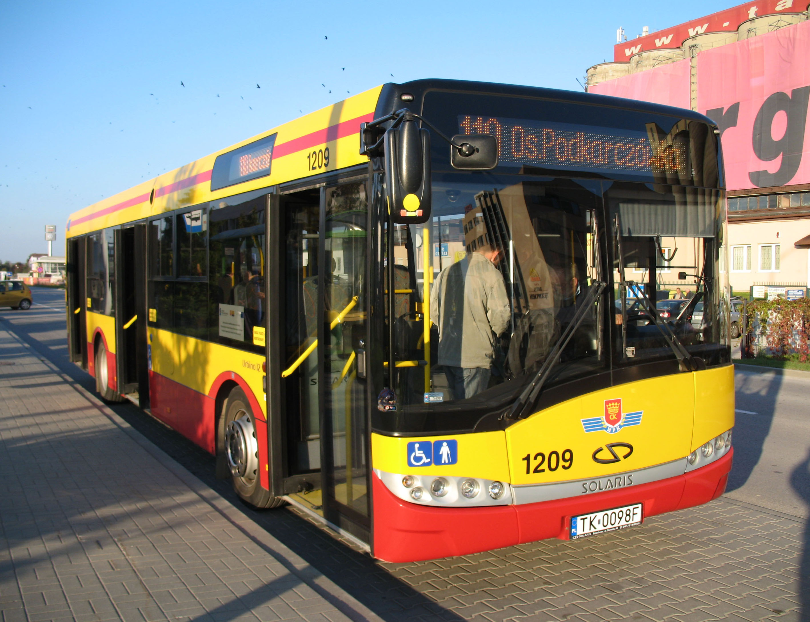 Solaris Urbino 12 bus (#1209) in Kielce, Poland. Built 2009, MPK Kielce operator.